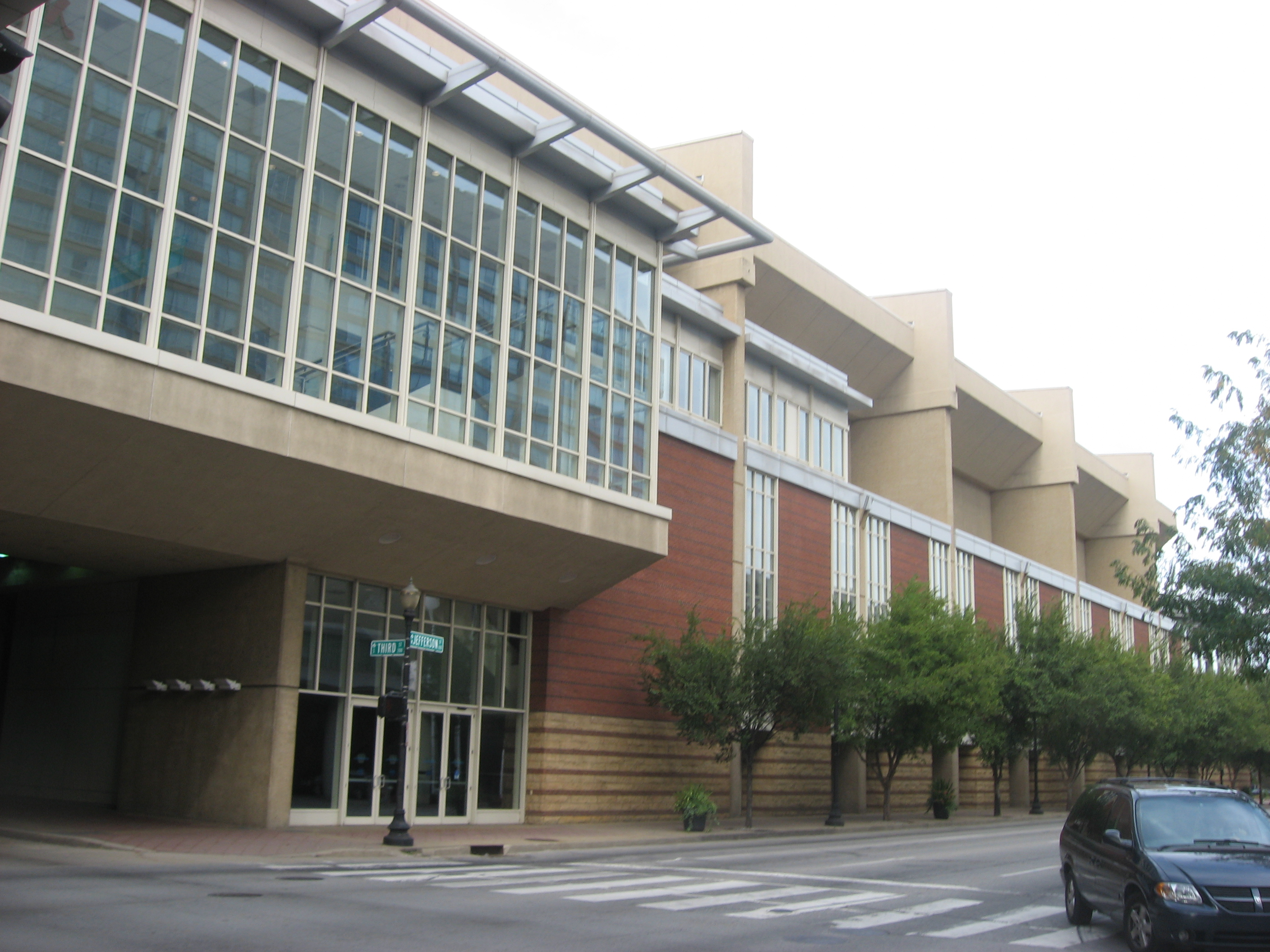 A portion of the Kentucky International Convention Center that occupies the northern side of the 200 block of W. Jefferson Street (U.S. Route 60) in downtown Louisville, Kentucky, United States. Built in 1977, it occupies the site of what was once the Tyler Hotel, which is listed on the National Register of Historic Places.